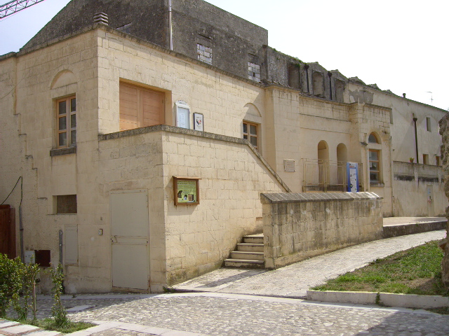 library of montescaglioso